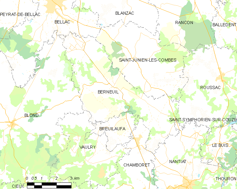 Map of French municipality Berneuil